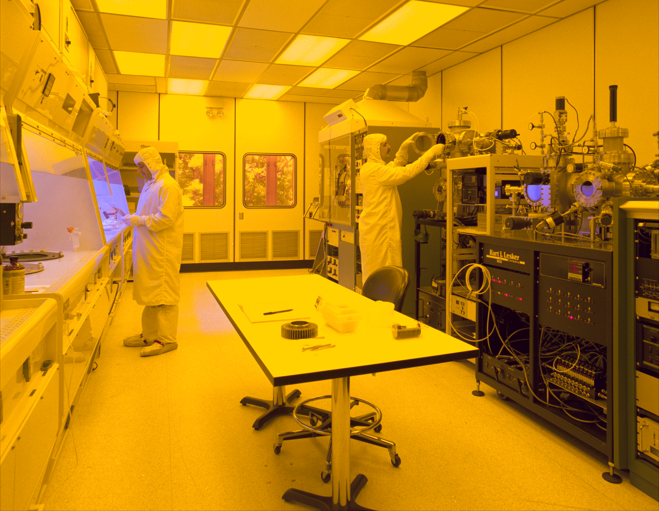 Clean room of a semiconductor manufacturing